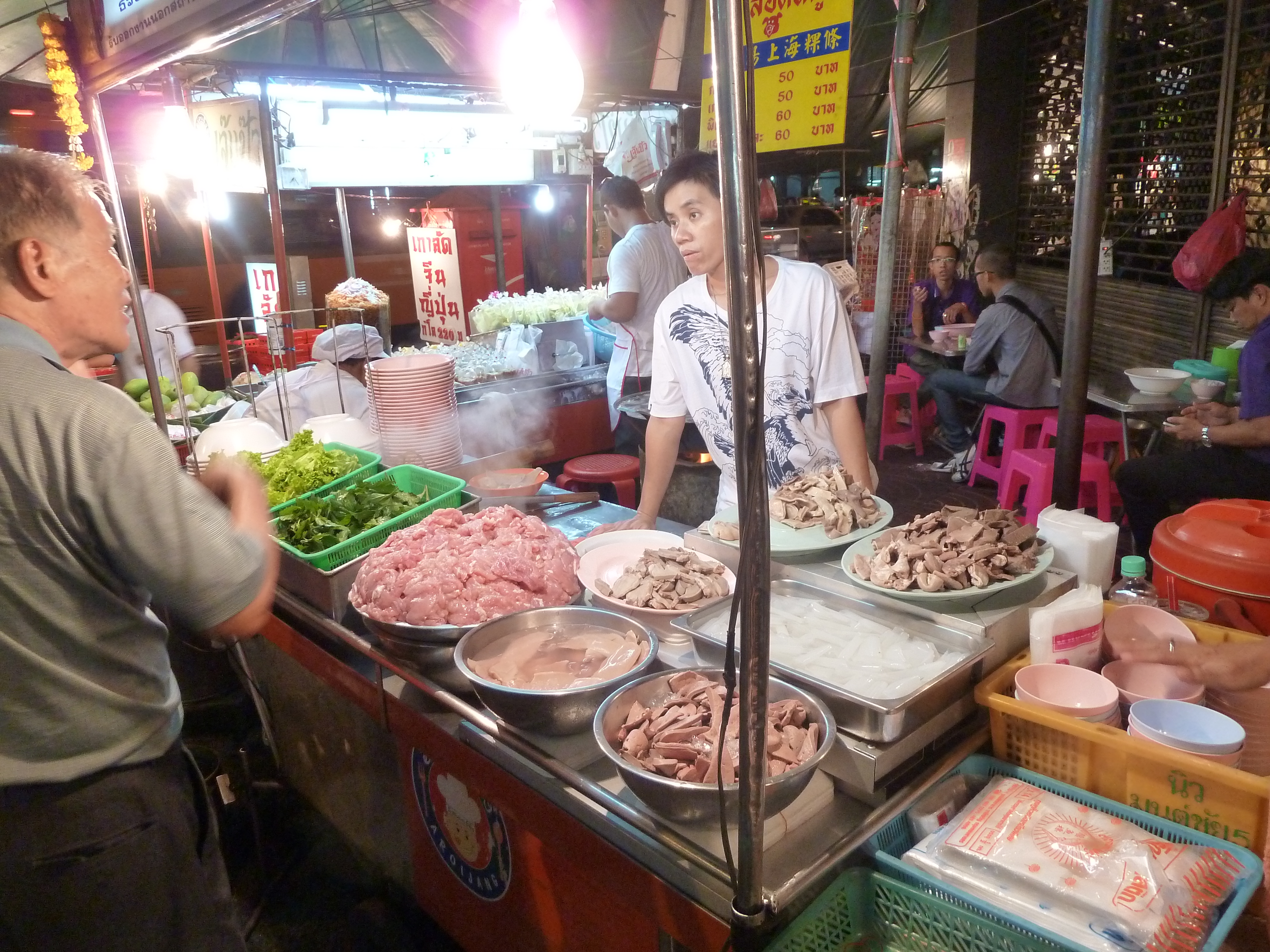 Street food in Bangkok, Thailand